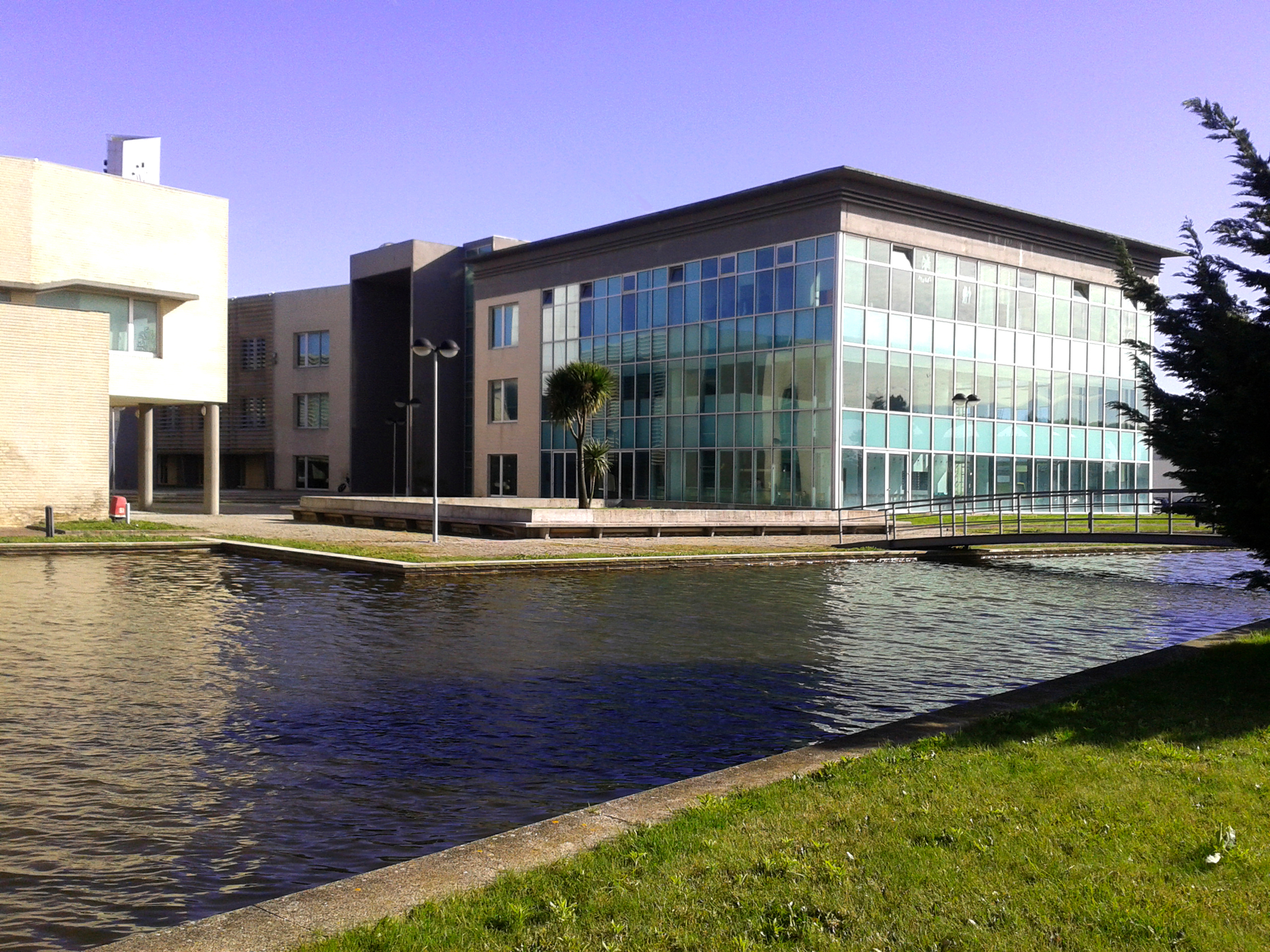 Porto Polytechnic's Superior School of Industrial Studies and Management (ESEIG) at Póvoa de Varzim, Portugal